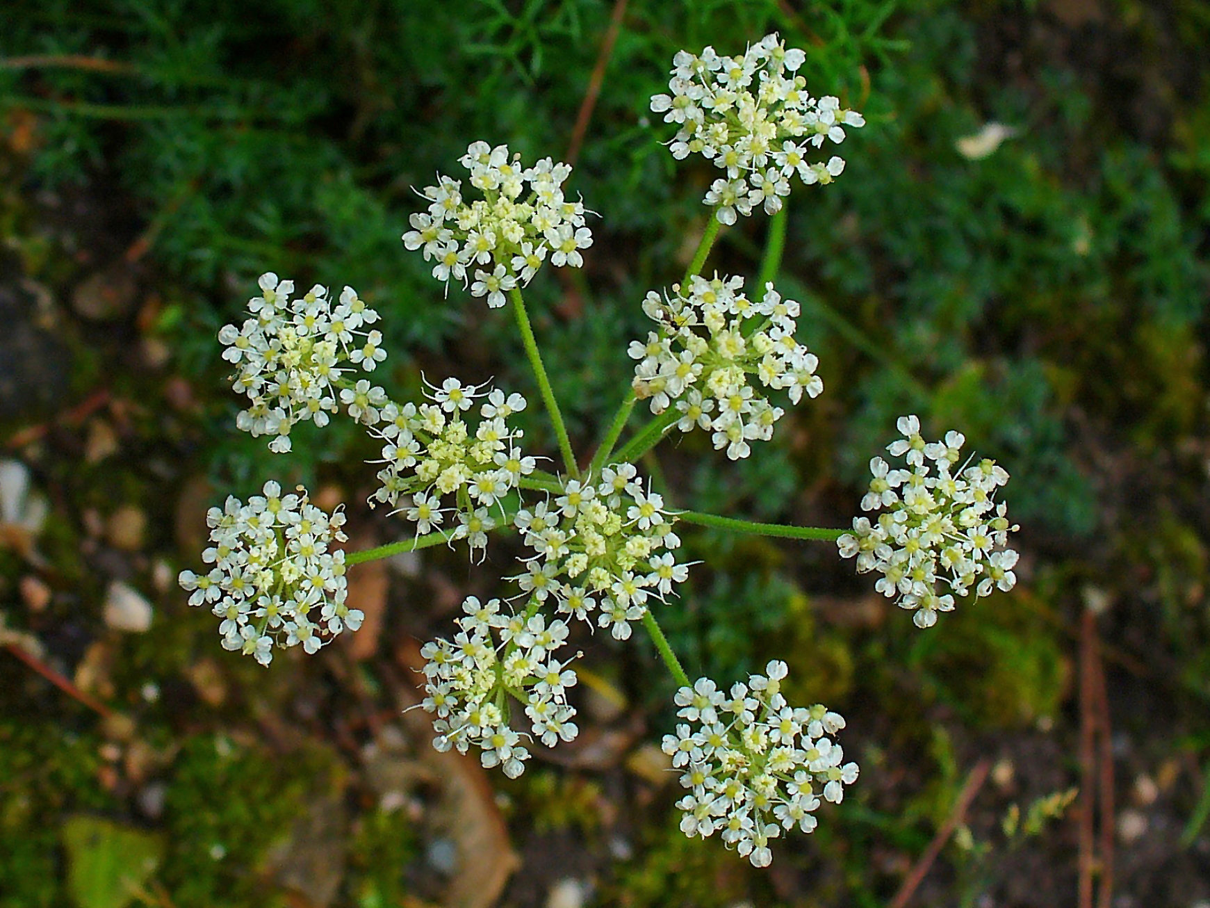 Athamanta cretensis, Apiaceae, Candy Carrot, inflorescence; Botanical Garden KIT, Karlsruhe, Germany.